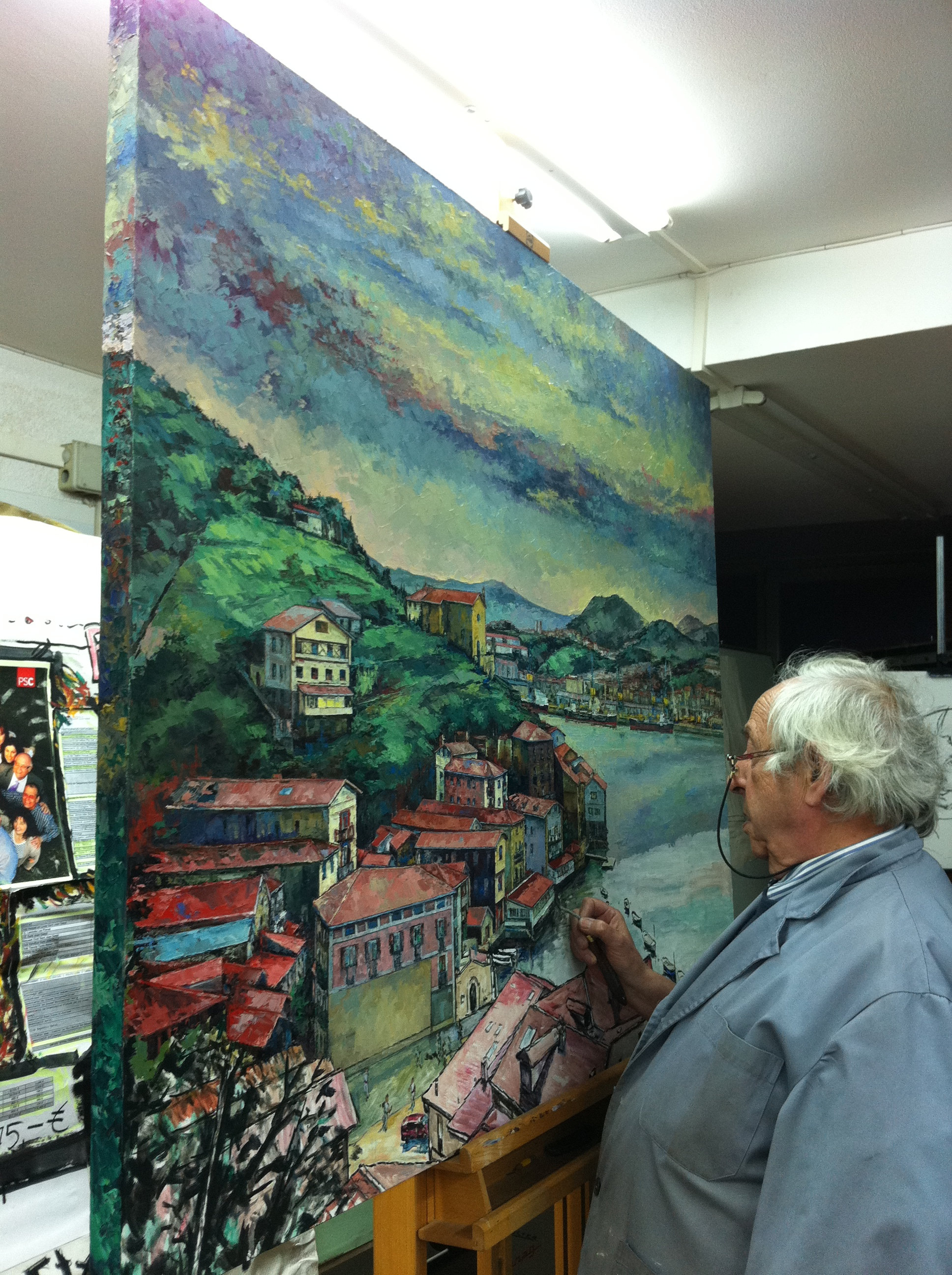 Oil on canvas paint by Pasajes.